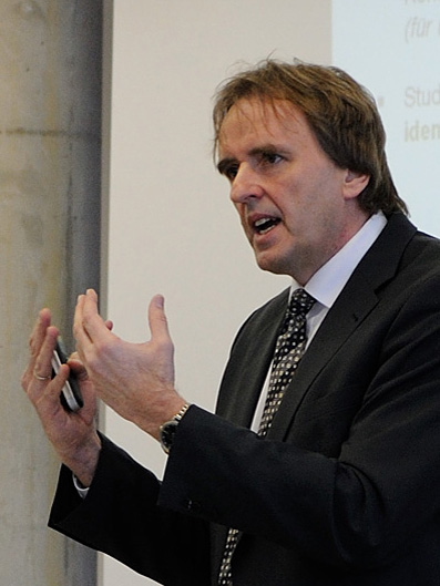 Norbert Pohlmann at the professor of the year 2011 award at the university of applied sciences, Gelsenkirchen